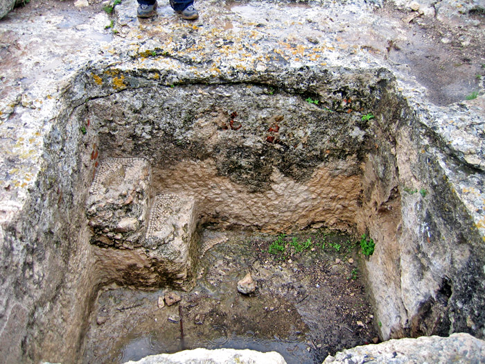 A carved out winepress in the rock, at Hurvat Itry (Adullam-France Park)